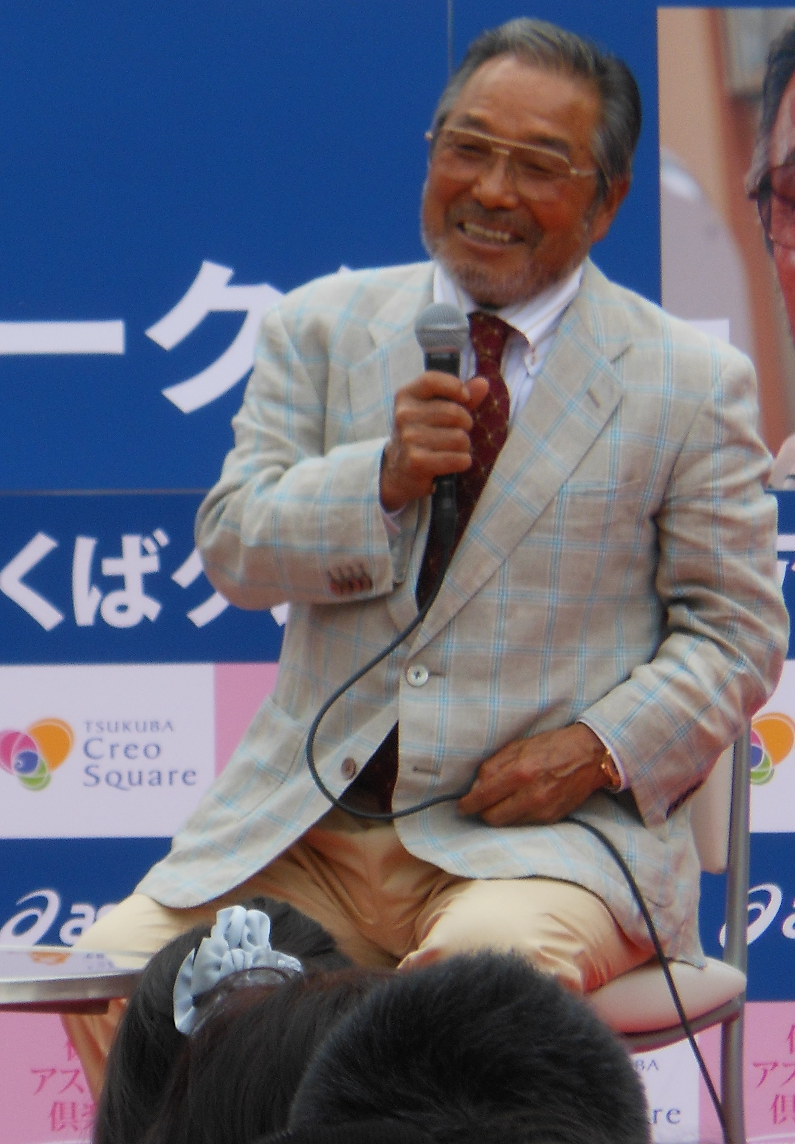 He is a Japanese marathon coach who trained Naoko Takahashi.